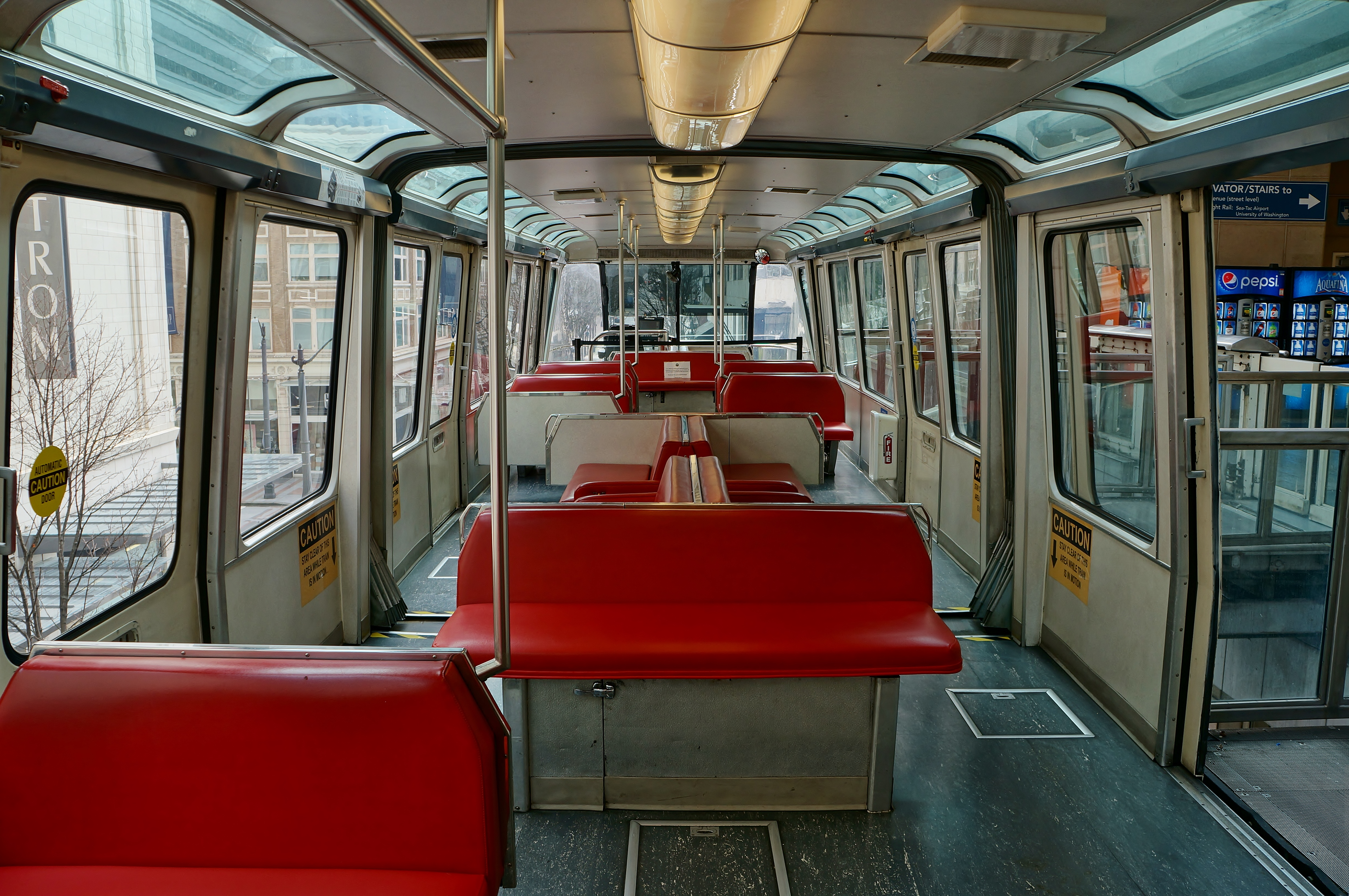 The empty interior of the red train of the Seattle Center Monorail at the Westlake Center terminal.